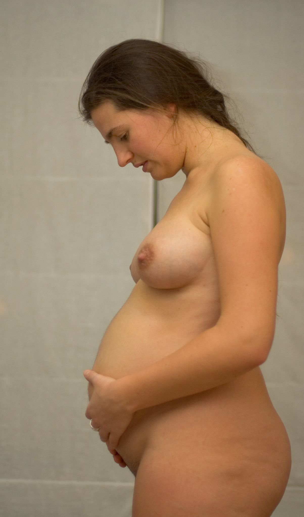 Pregnancy in the 26th week.